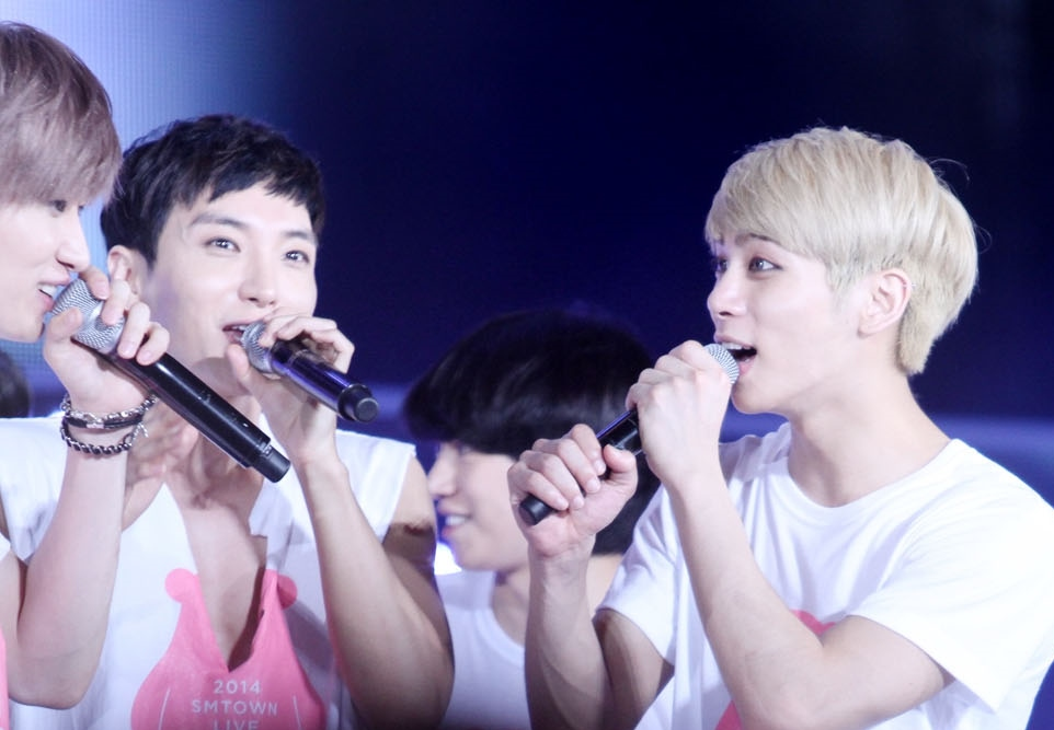 SMTown Live World Tour IV in Seoul in August 15, 2014.